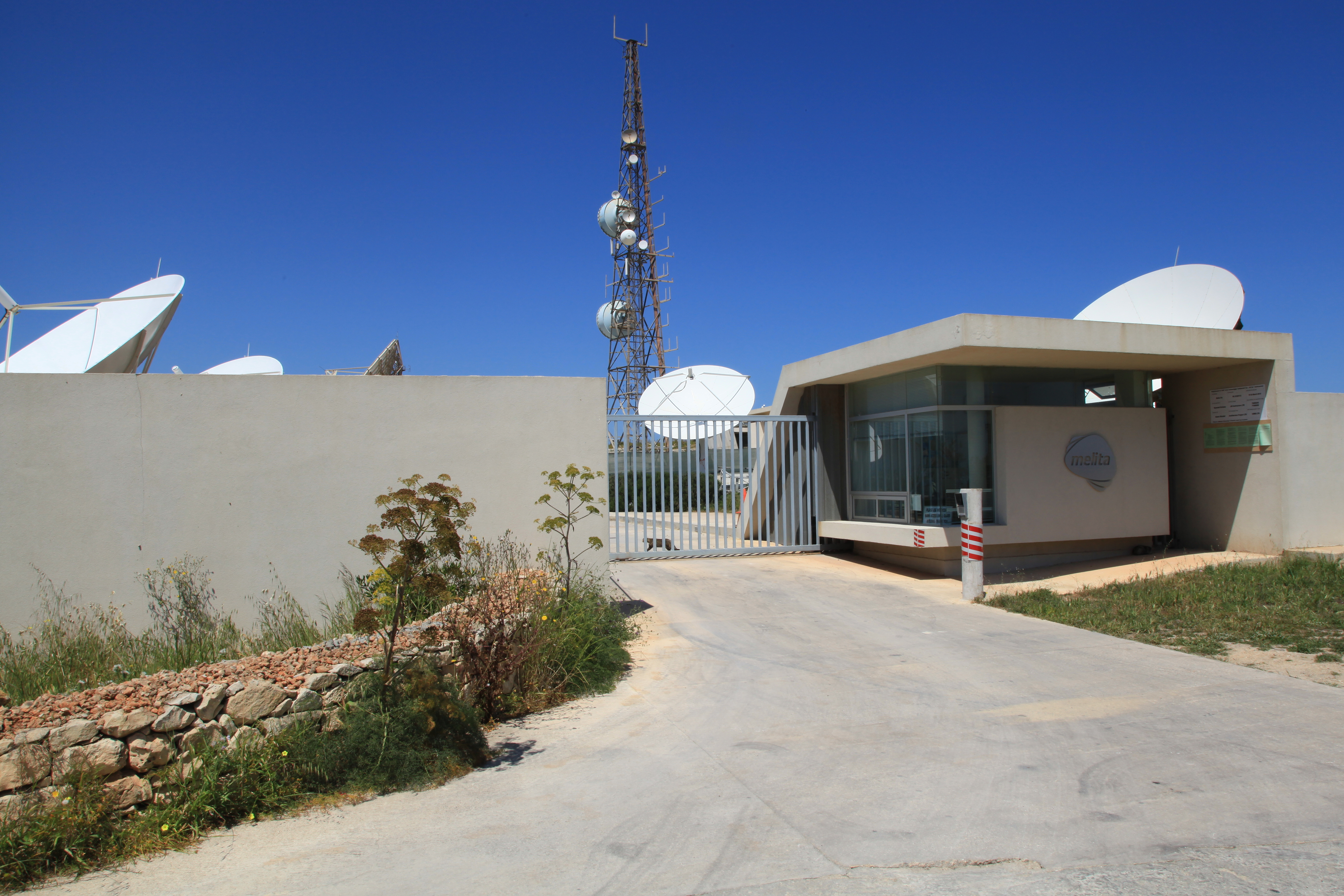 Melita telecommunication company at Triq il-Madliena in Swieqi, Malta